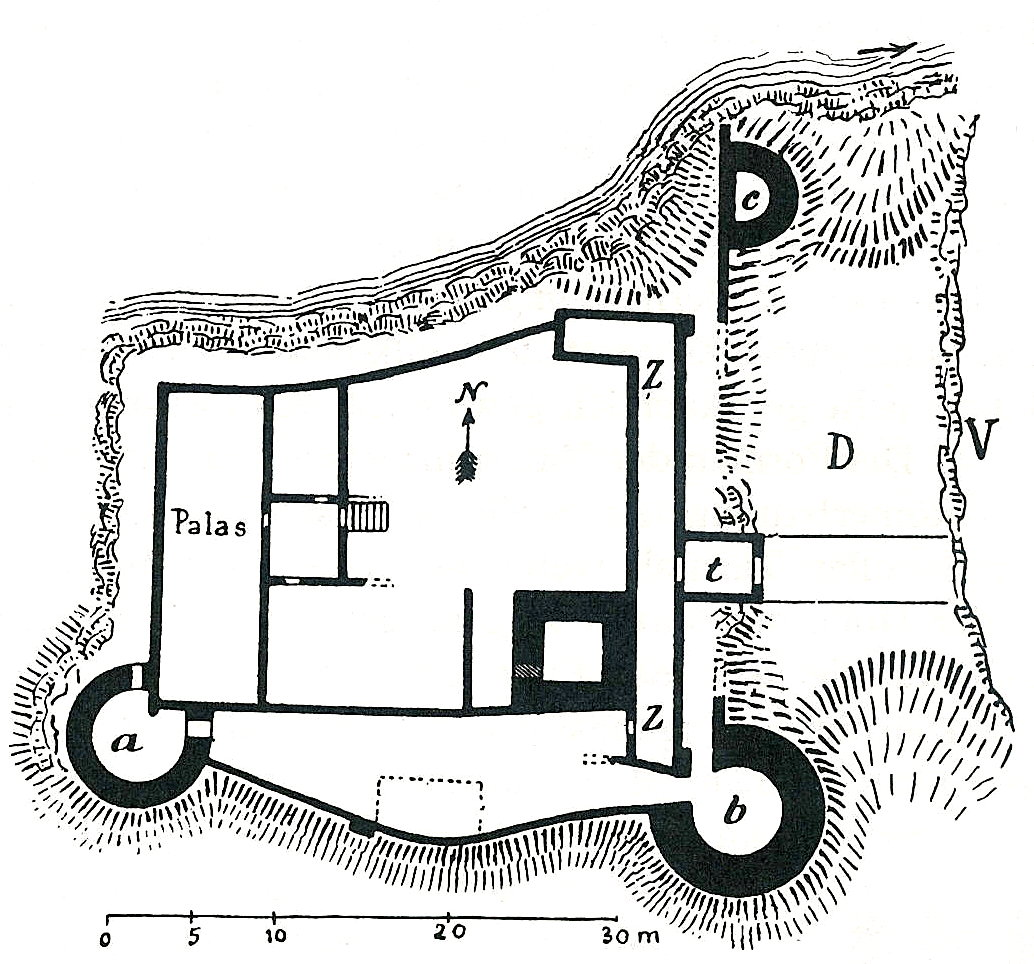 Plan of Rudelsburg castle, by Otto Piper, died 1921, copyright expired, public domain. From: Otto Piper, Burgenkunde, 3. verbesserte Auflage, München 1912